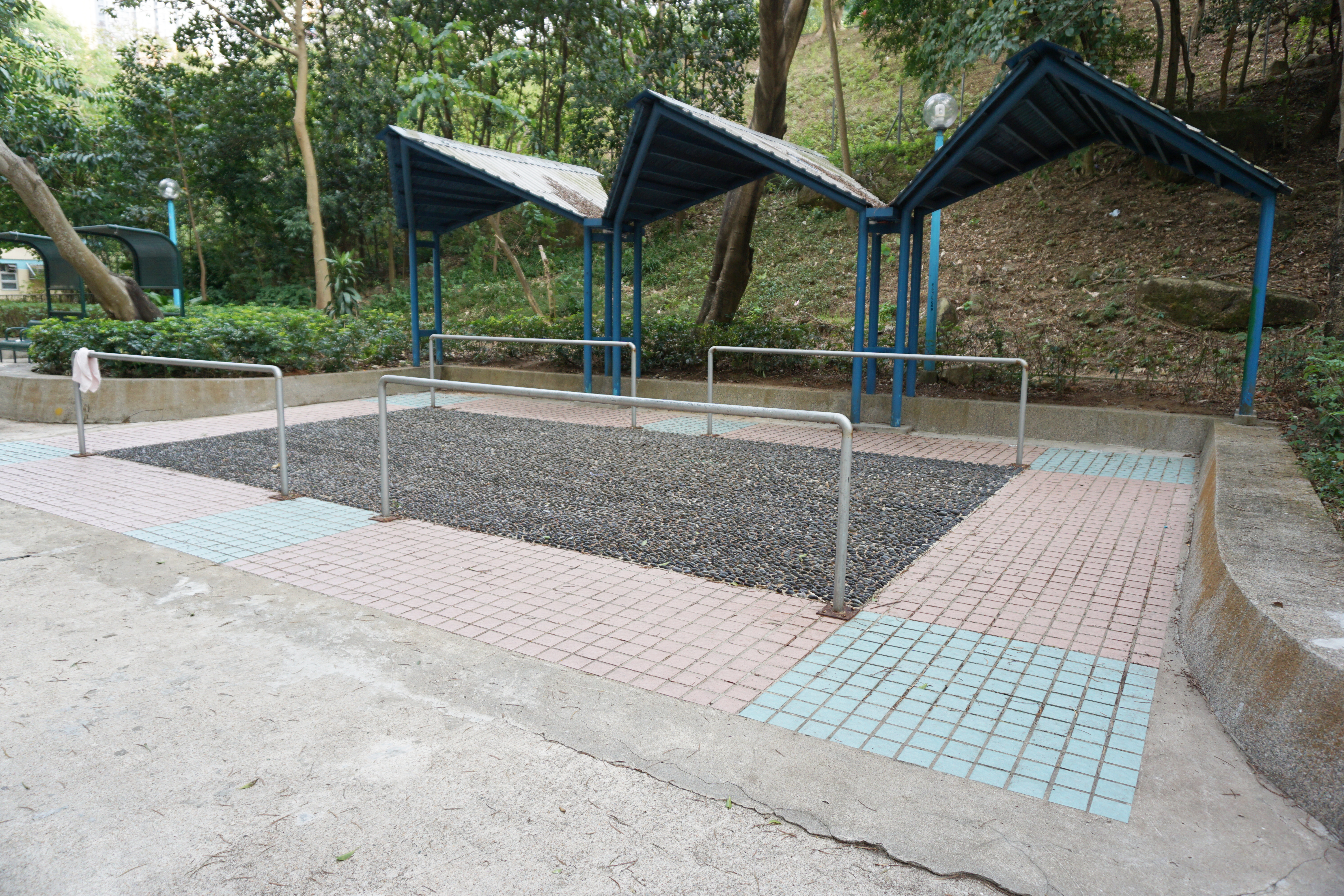 Pok Hong Estate in Sha Tin Wai, Hong Kong.